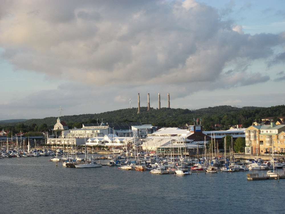 Stenungsund and the power plants four giant chimneys in the background